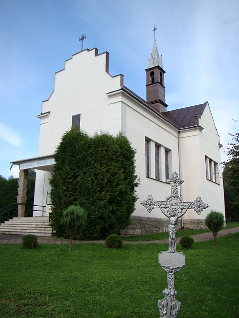 Bóbrka